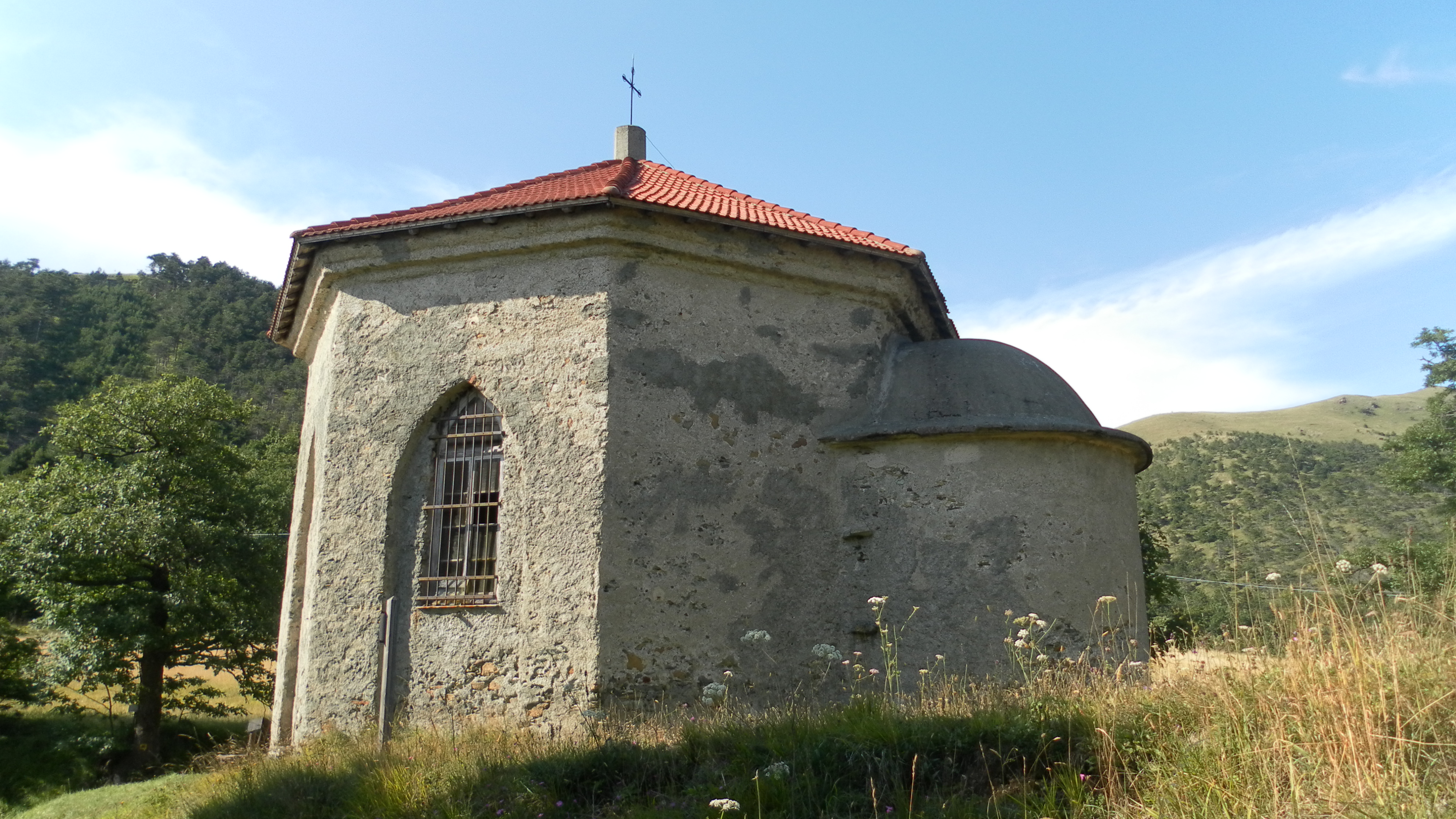 Capanne di Marcarolo, Bosio (AL)